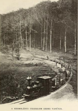 Railway, Szomolány